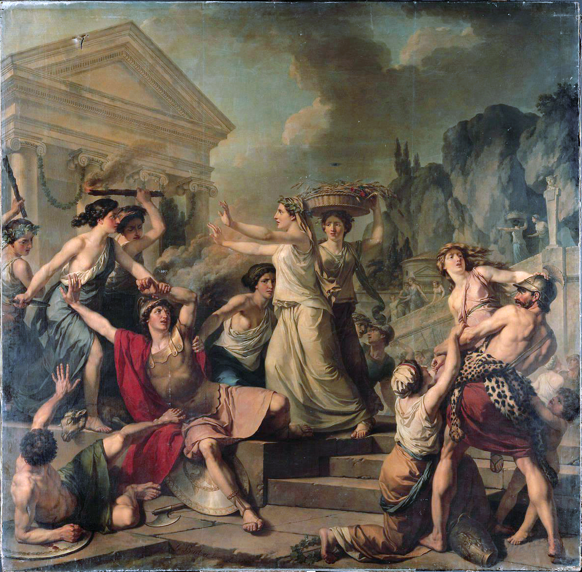 The courage of the women of Spartalabel QS:Len,"The courage of the women of Sparta" label QS:Lfr,"Le courage des femmes de Sparte" label QS:Lit,"Il coraggio delle donne di Sparta, olio su tela"